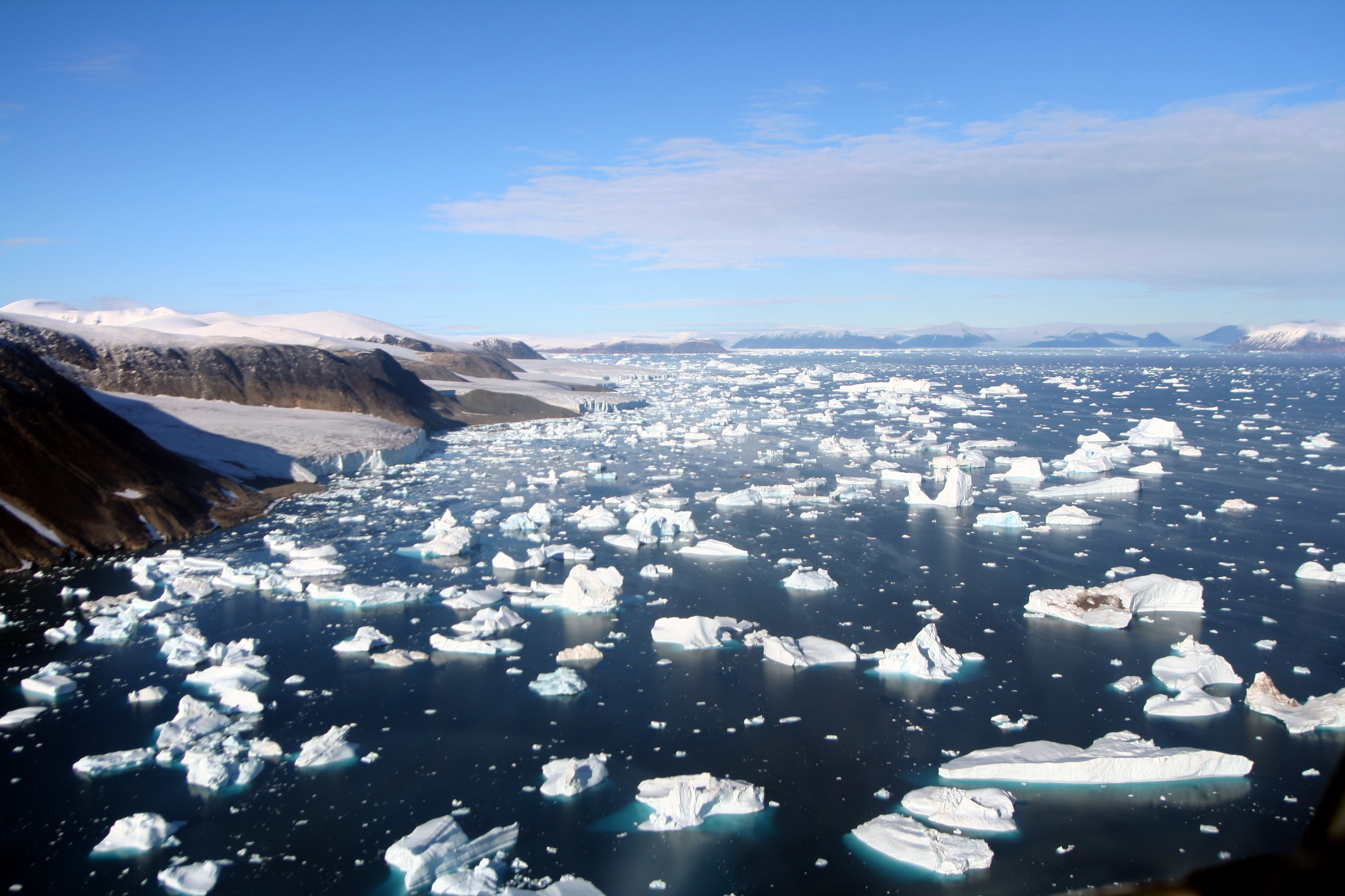 Icebergs are breaking off glaciers at Cape York,Greenland. The picture was taken from a helicopter.